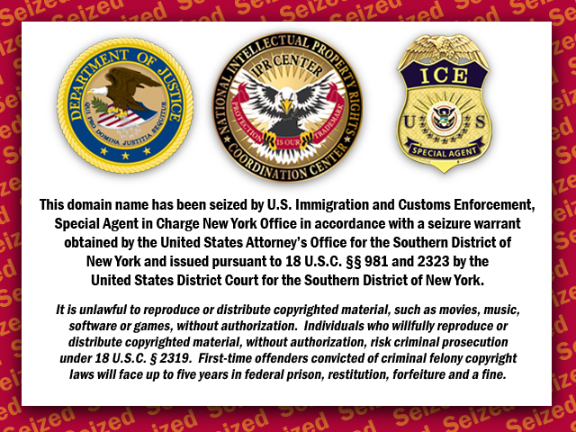 Notice of web site seizure from the U.S. Immigration and Customs Enforcement.